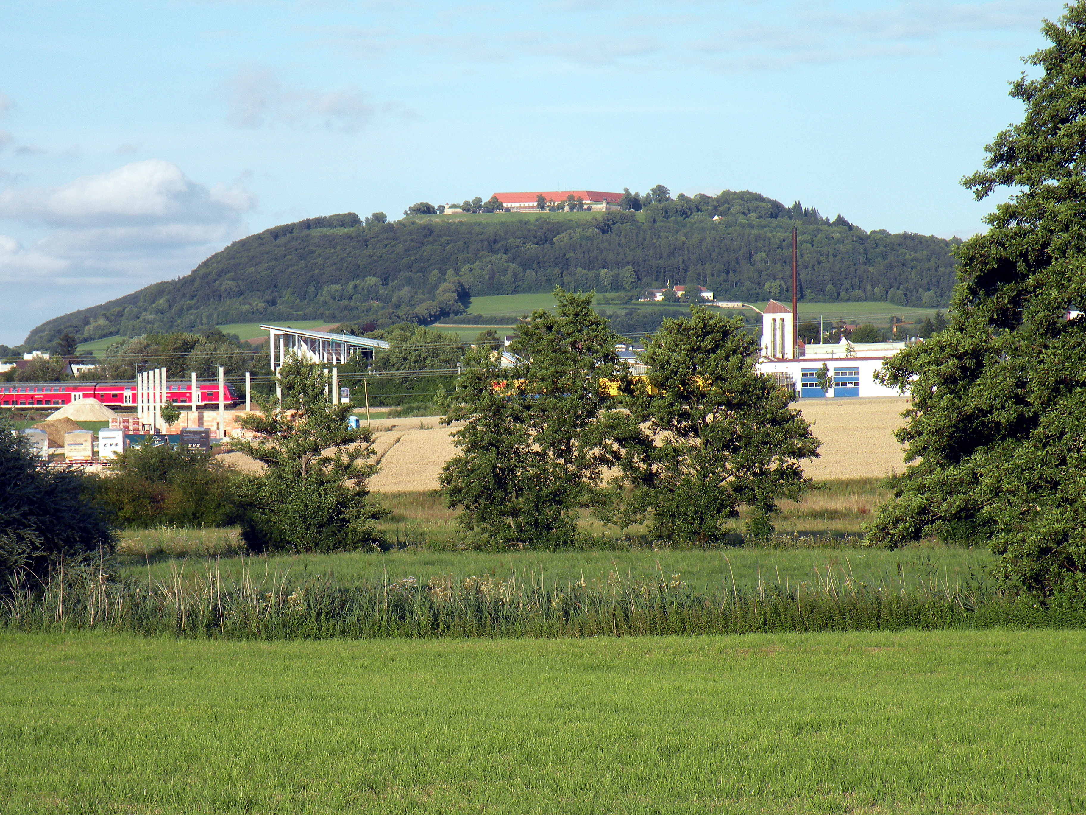 Fortress Wuelzburg up on the hill.